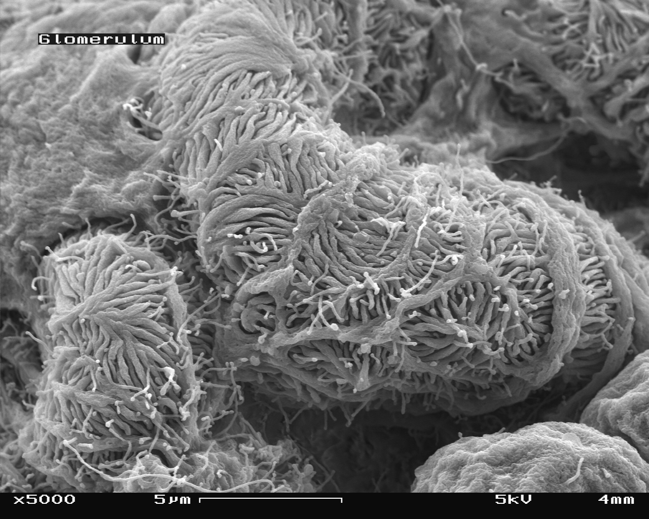 Glomerulum of mouse kidney in Scanning Electron Microscope, magnification 5,000x